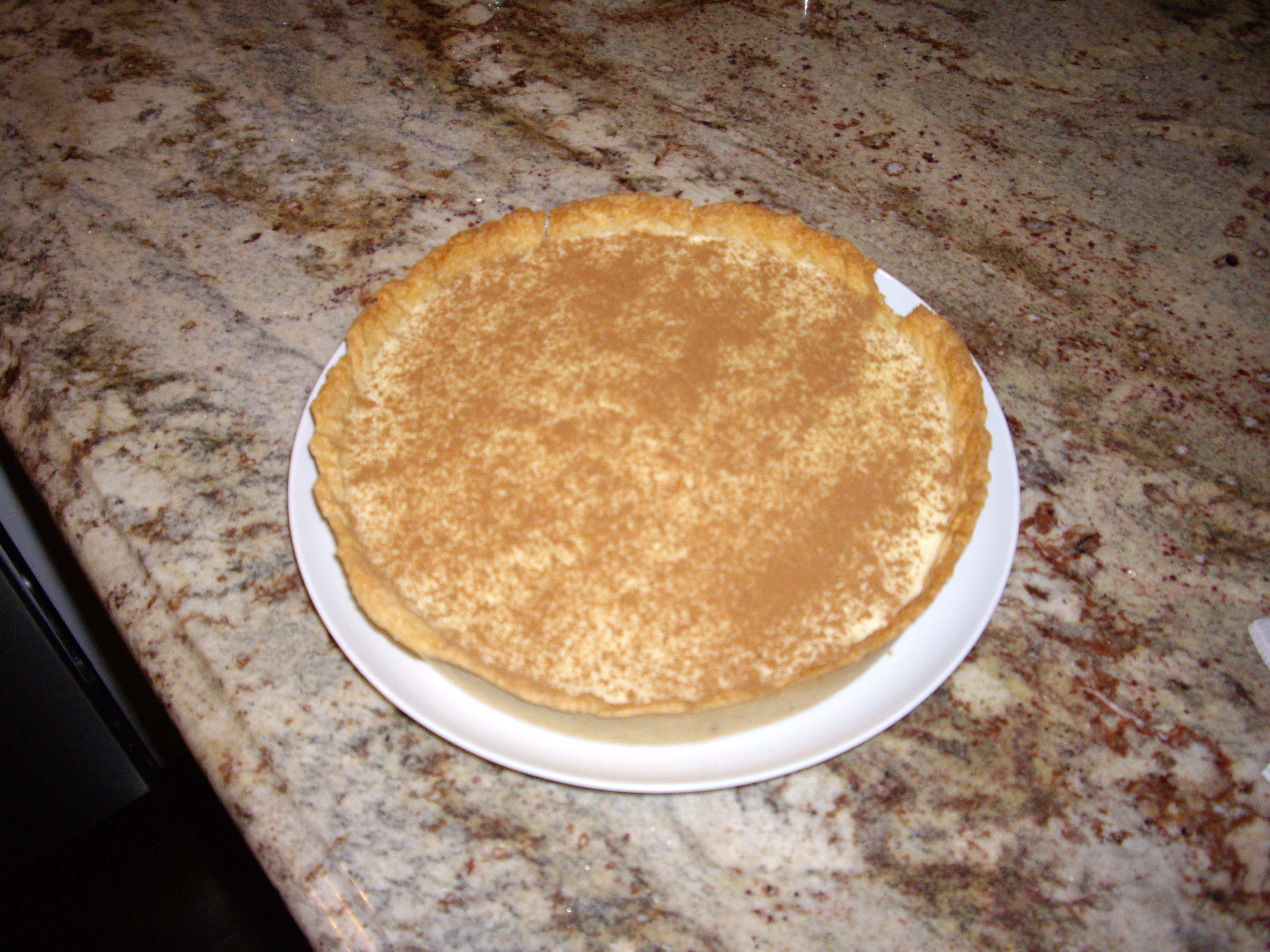 Milk tart